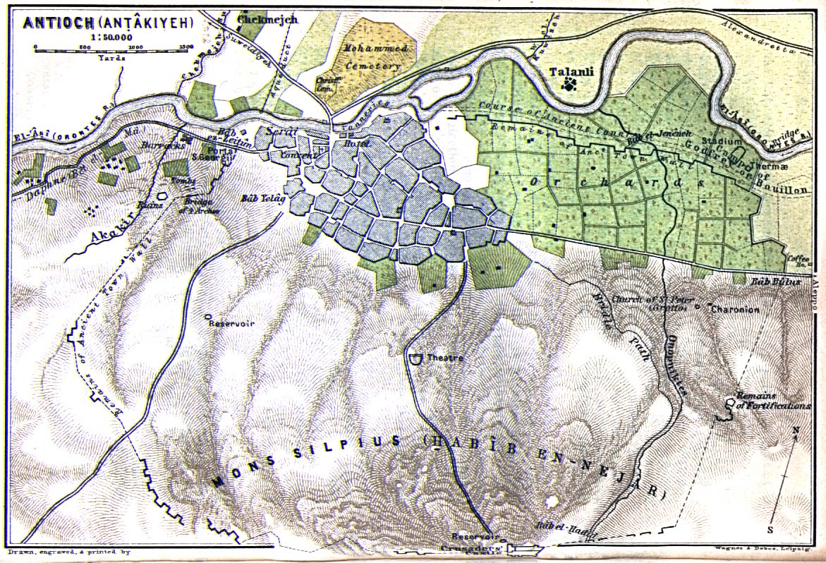 Map of Antioch, 1912 from Historical map